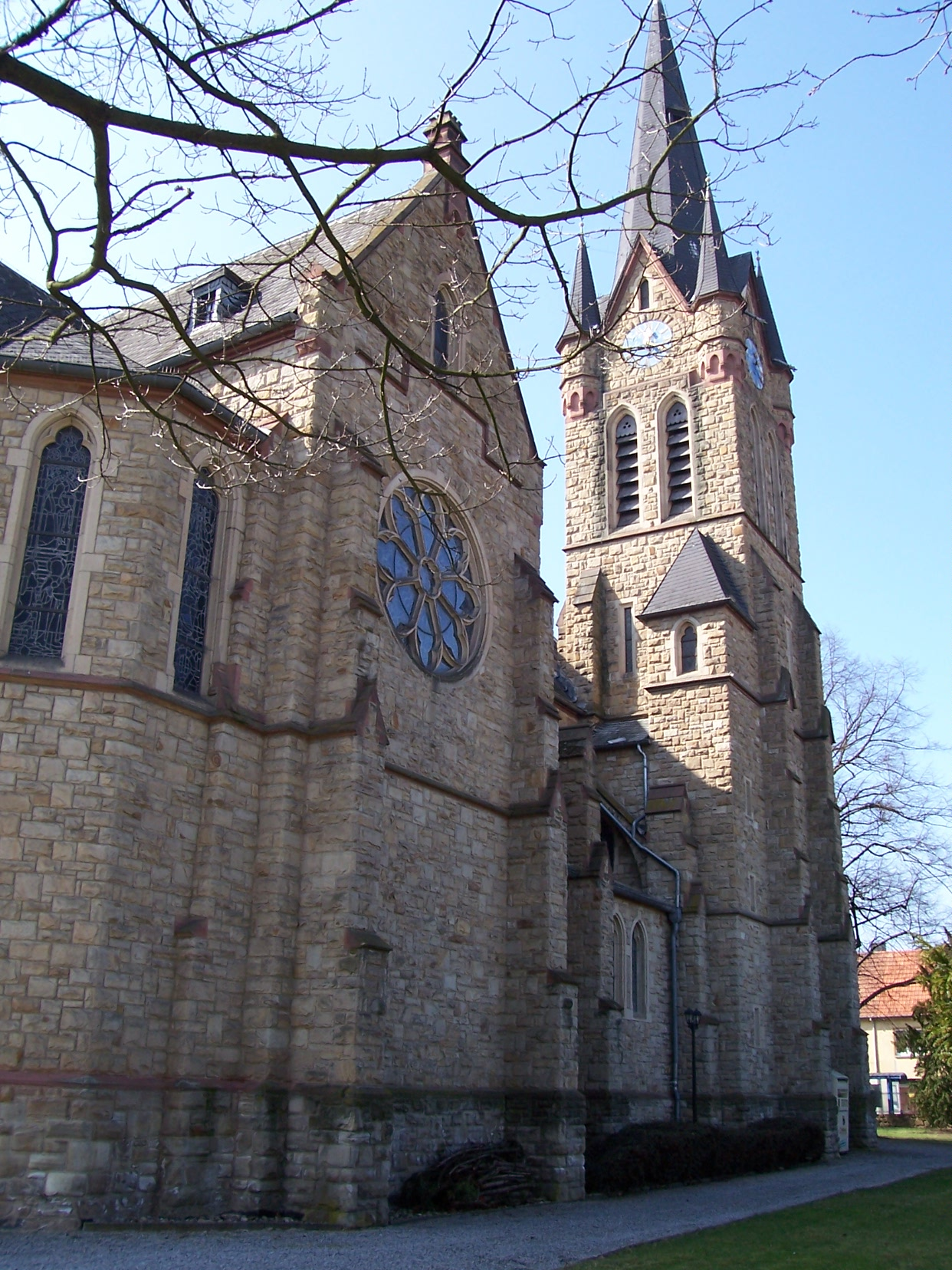 North-east aspect Sst. Gordianus und Epimachus (Bingen-Dietersheim)